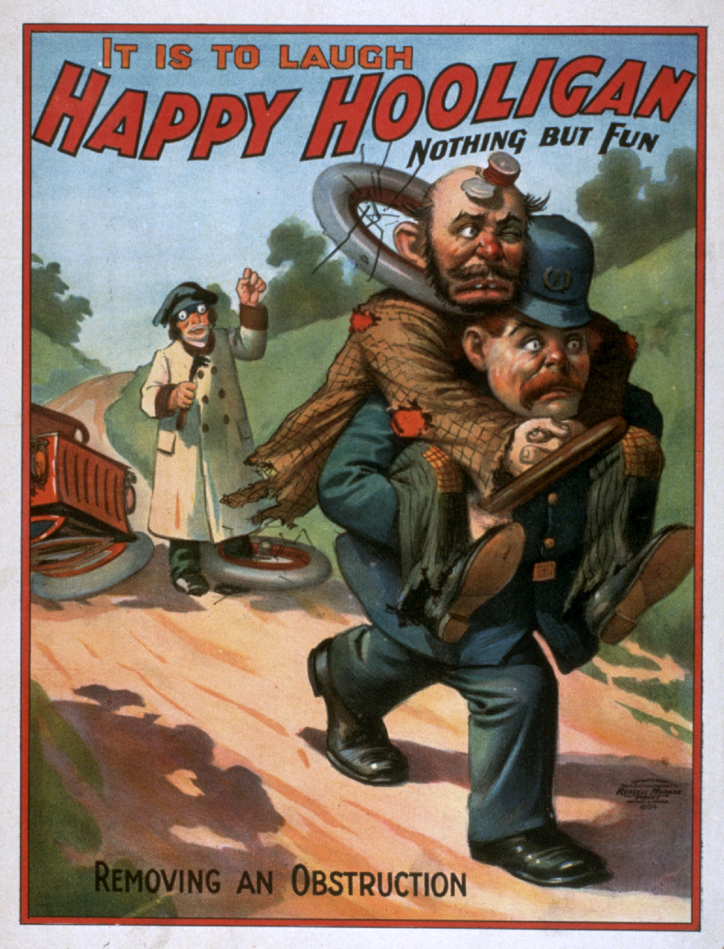 Theatrical poster for the stage presentation of Happy Hooligan, which was based on the cartoon character by Frederick Burr Opper